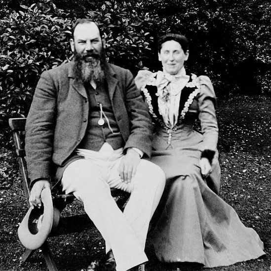 A rare photograph of the Gloucestershire and England cricketer Dr WG Grace (William Gilbert Grace) with his wife Agnes, circa 1900. The exact location of this photograph is unknown, but it could be the garden of their home in Lawrie Park Road, Sydenham, South East London.